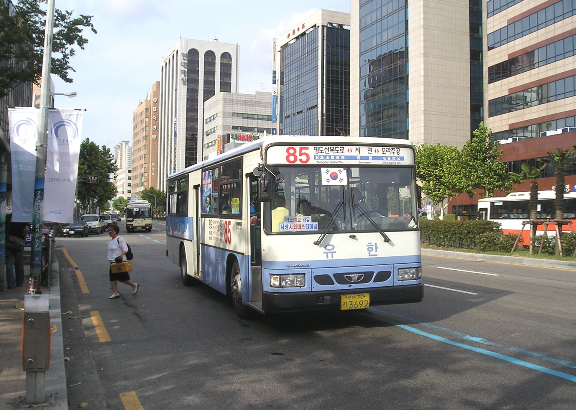 The route 85 in Busan.